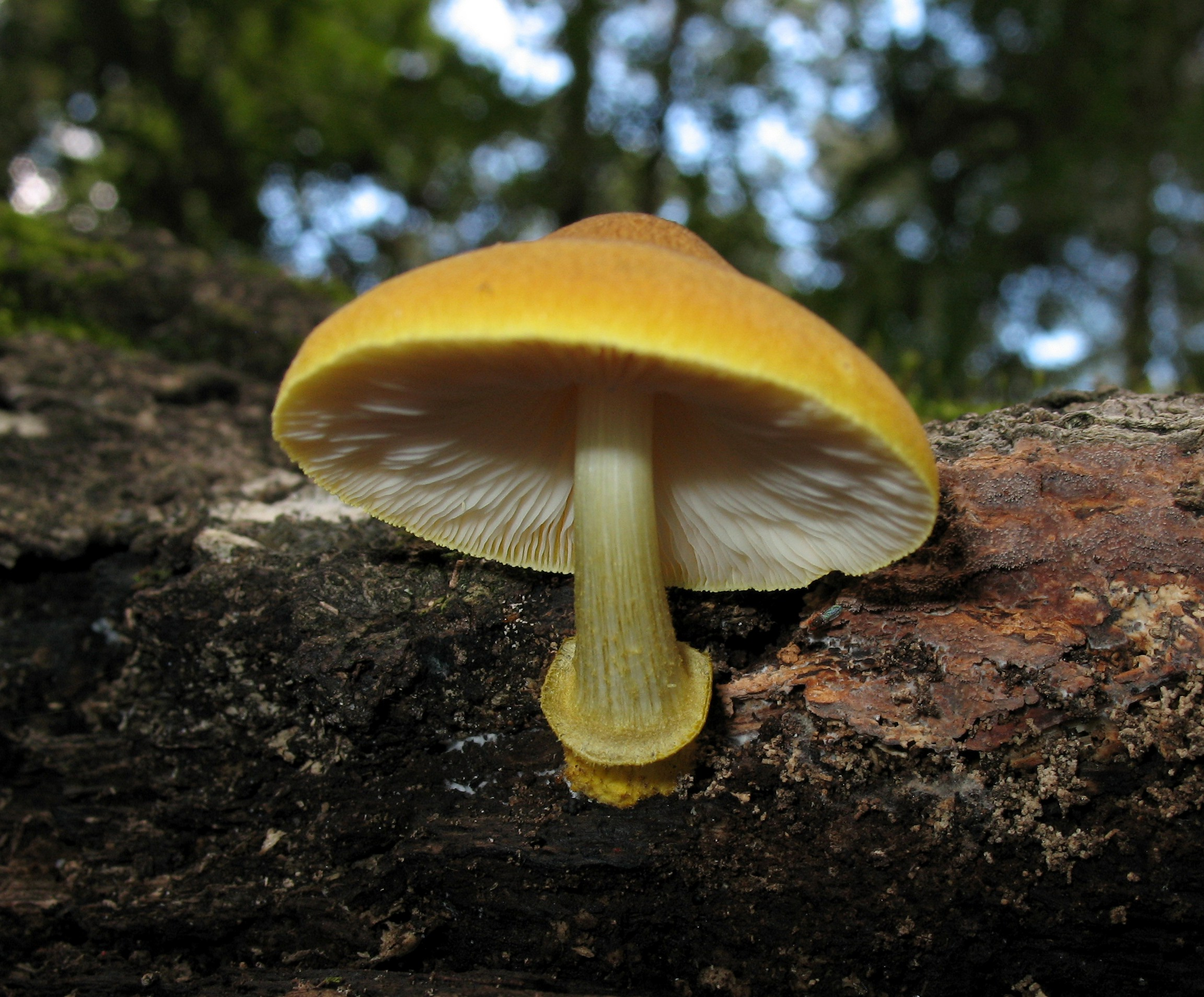 Pluteus mammillatus Minnis, Sundb. & Methven Image location: Gainesville, Florida, USA really cool find! awesome job as usual Recognized by sight For more information about this, see the observation page at Mushroom Observer.